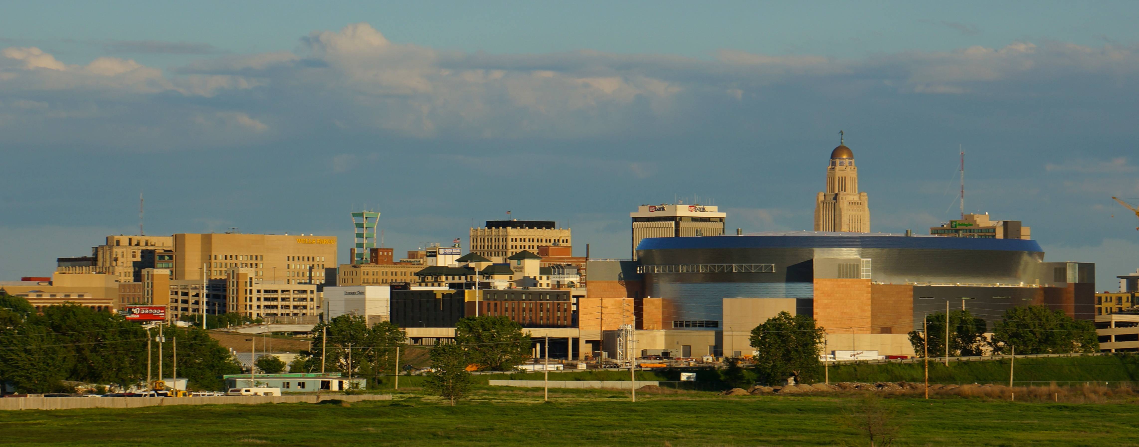 View of the Lincoln, Nebraska skyline May 20th, 2013.